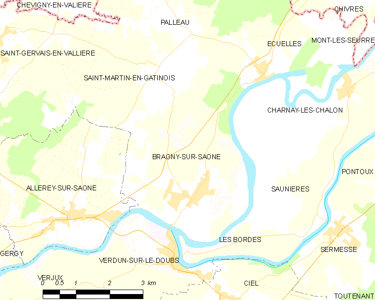 Map of French municipality